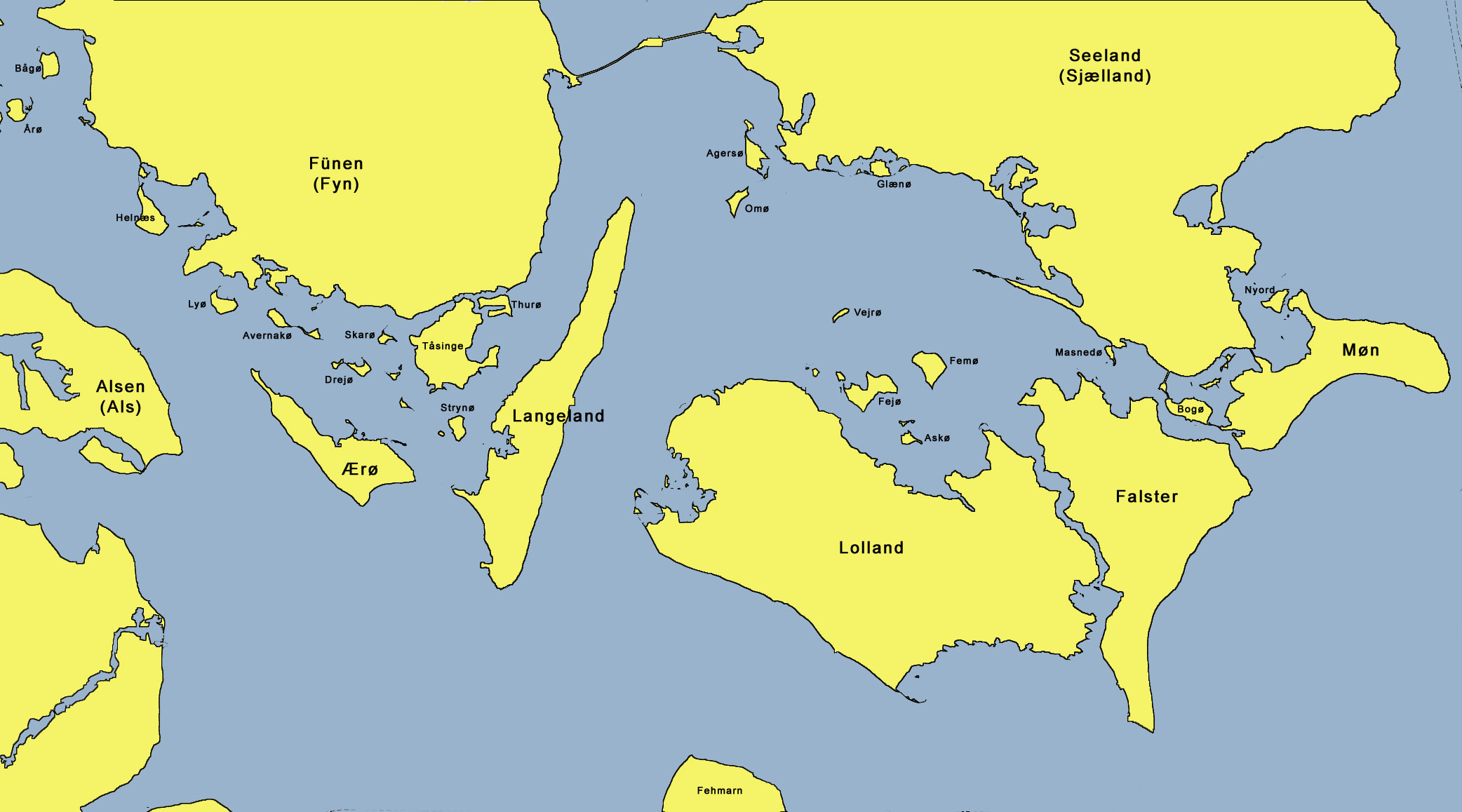 map of the Baltic Sea between Als Island and Møn (Denmark) (german).